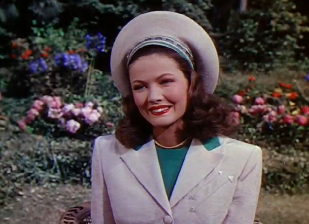 Screenshot of Gene Tierney from the film Leave Her to Heaven.